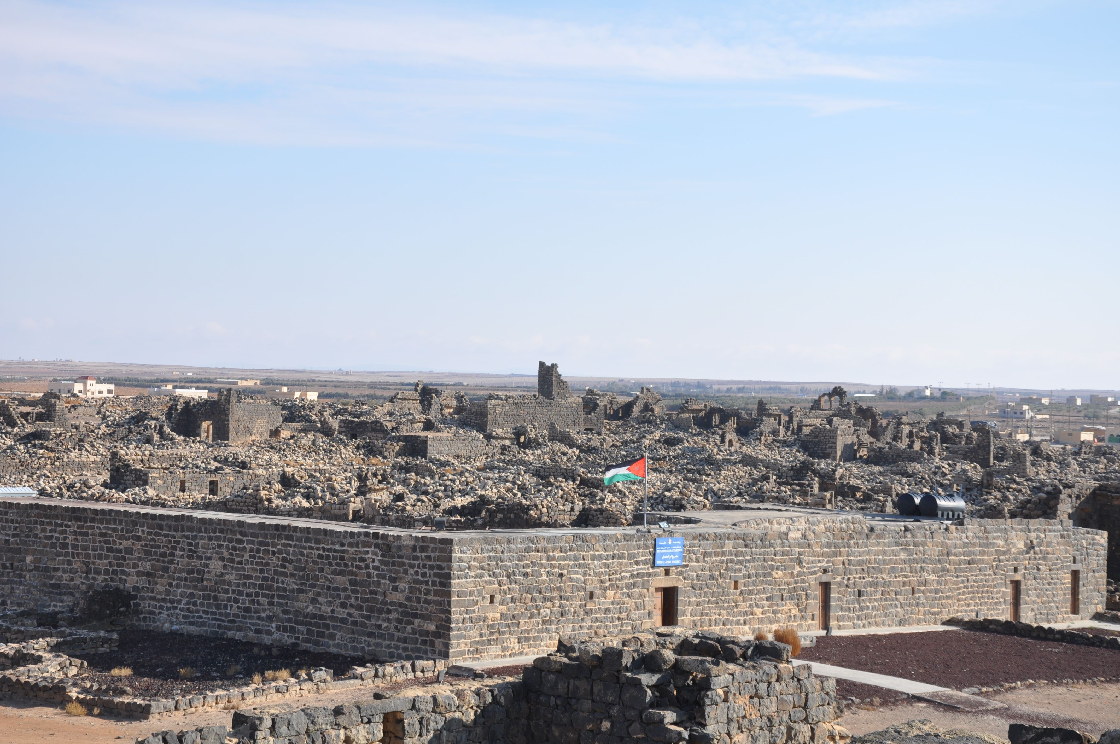 Looking east over the site.